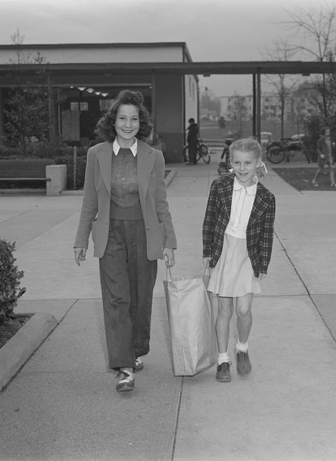 Title: I'll carry mine. The two handled paper shopping bag comes into its own, as American shoppers respond to the call of "carry your own for the duration", to save tires and gasoline